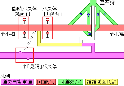 Roads near Zenibako interchange(Dōō Expressway) 道央自動車道 銭函インターチェンジ（含む見晴BS）周辺の道路構成